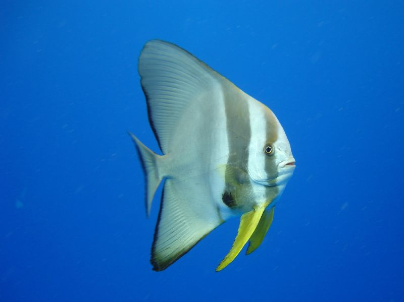 A Platax fish in Mauritius